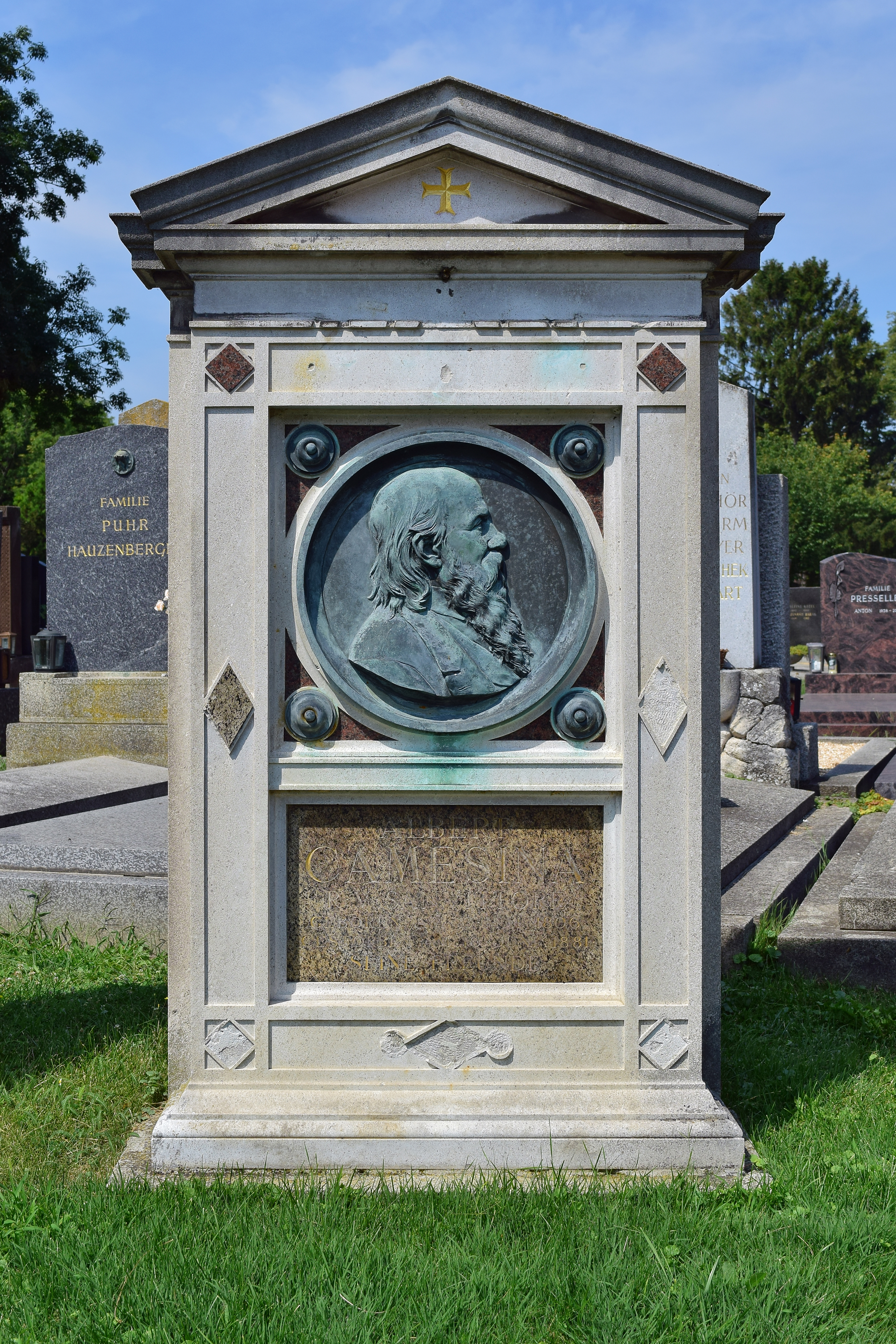 Grave of honor of Albert Camesina at the Wiener Zentralfriedhof